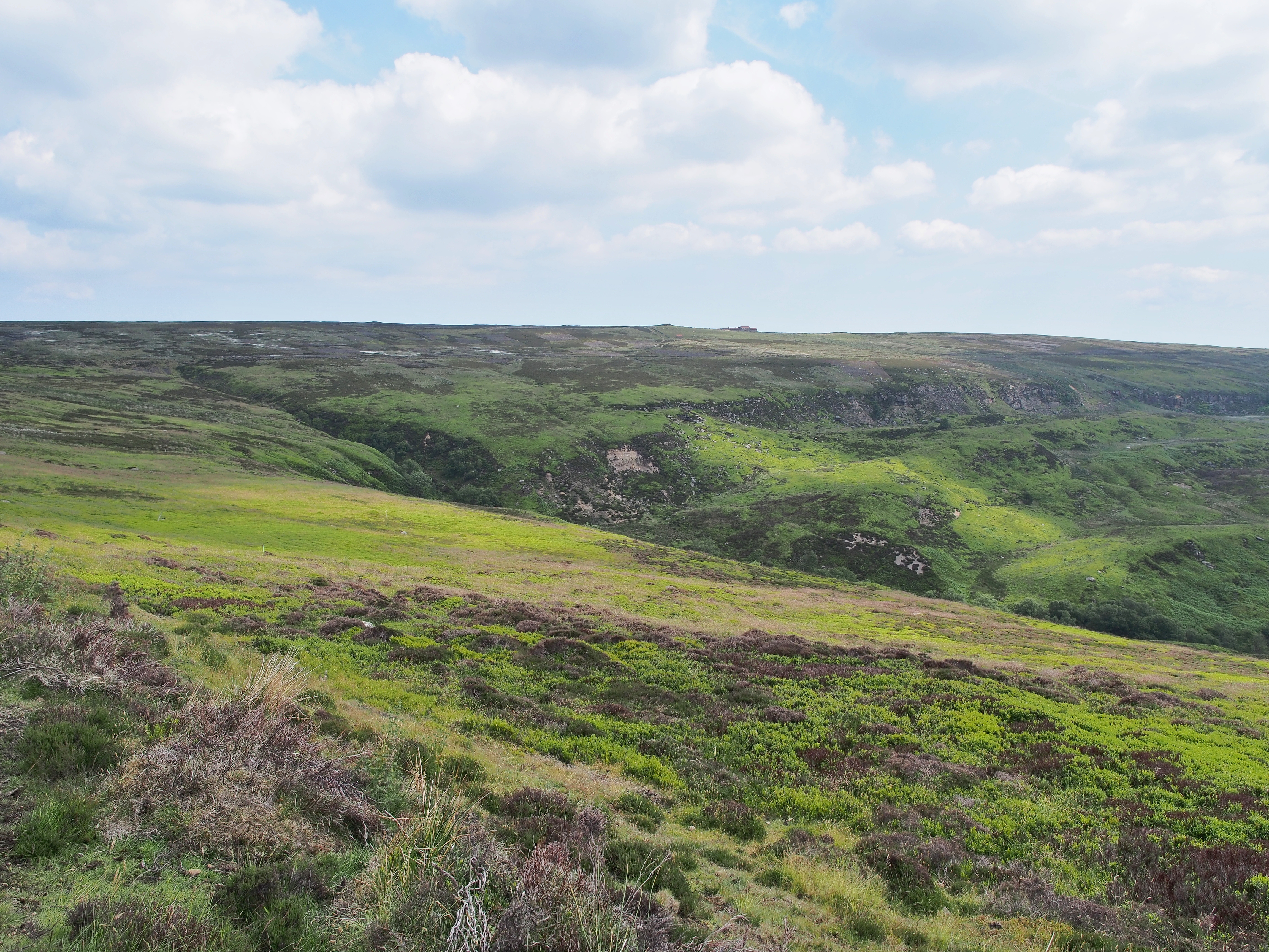 Blakey Ridge with the Lion Inn from the west, North York Moors